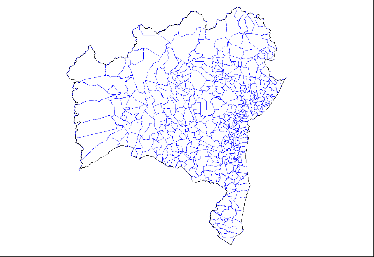 Map of the municipalities of the state of Bahia, Brazil. Created by Rarelibra 19:11, 24 August 2006 (UTC) for public domain use. Created using MapInfo Professional v8.5 and various mapping resources.